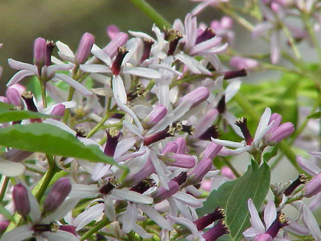 Species: Melia azederach Family: Meliaceae Image No. 1